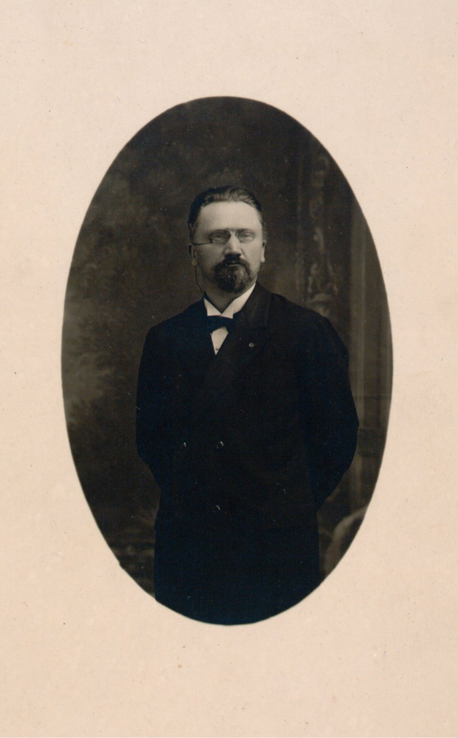 Portrait of Albert Seitz (1872–1937), French composer and viola player.